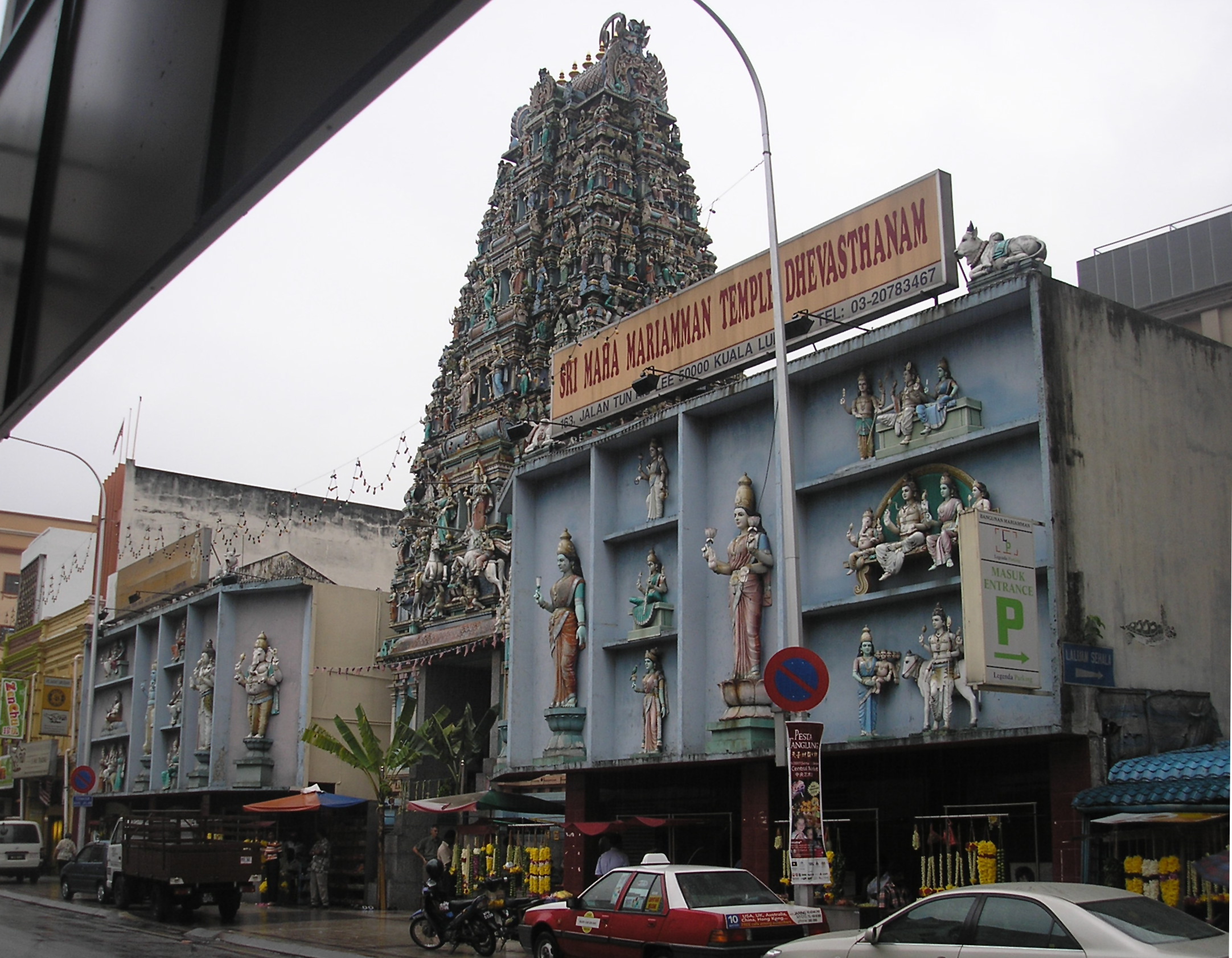 The Sri Mahamariamman Temple [1] (also known as the Sri Maha Mariamman Temple) at Jalan Tun H S Lee (previously Jalan Bandar and High Street), in central Kuala Lumpur, Malaysia, as viewed toward the southwest.